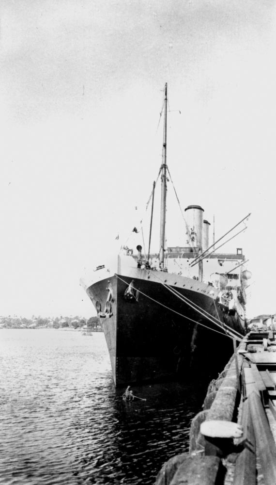 Orient Steam Navigation Co liner Orama